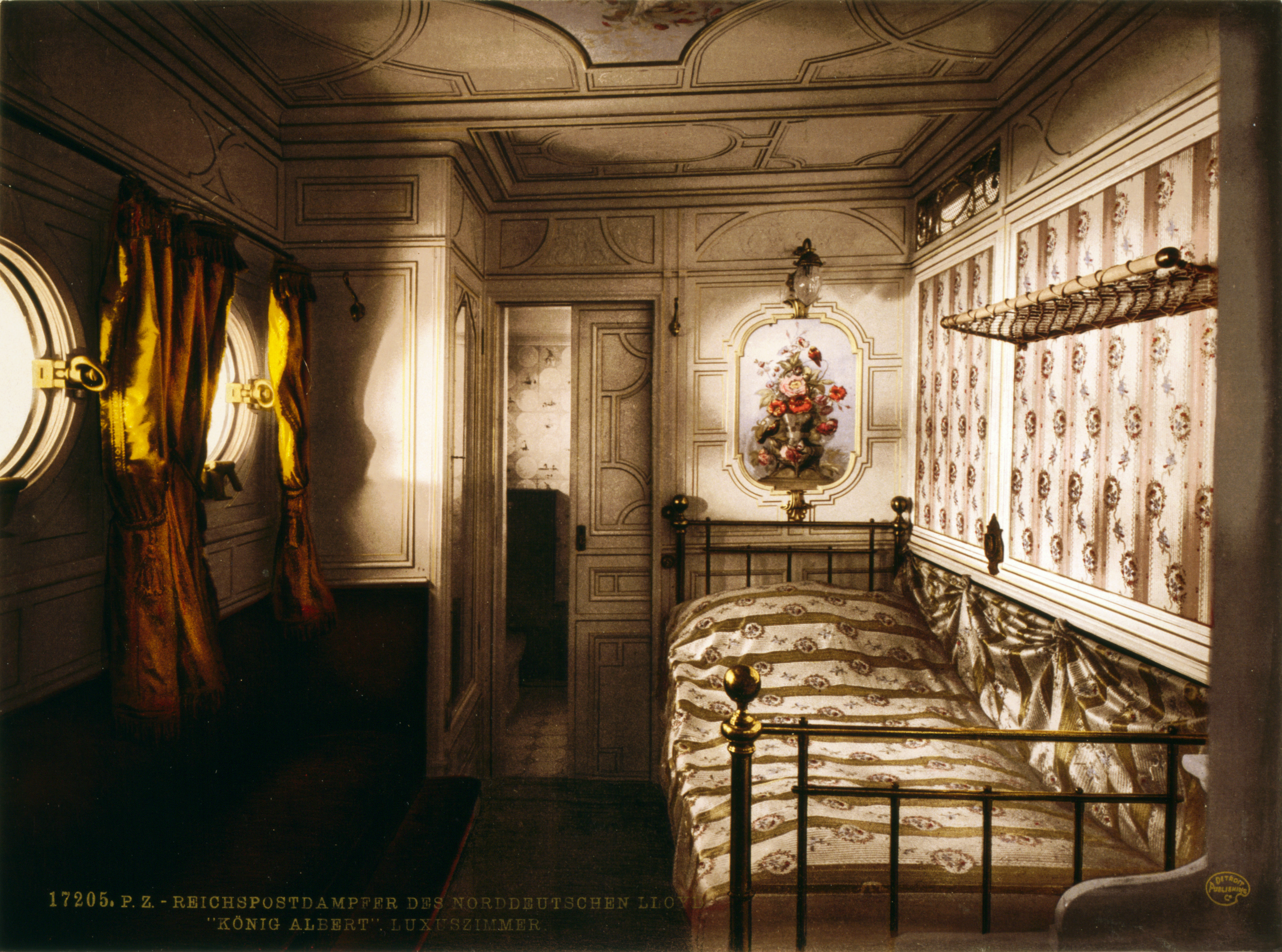 North German Lloyd mail steamer König Albert, luxury cabin